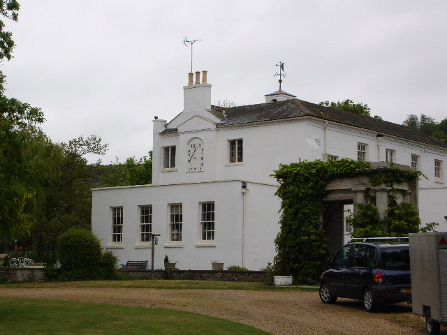 Beachborough House, Newington, Shepway, Kent: built in 1813, and now a guest house and equestrian centre. Note the large sundial on the wall.